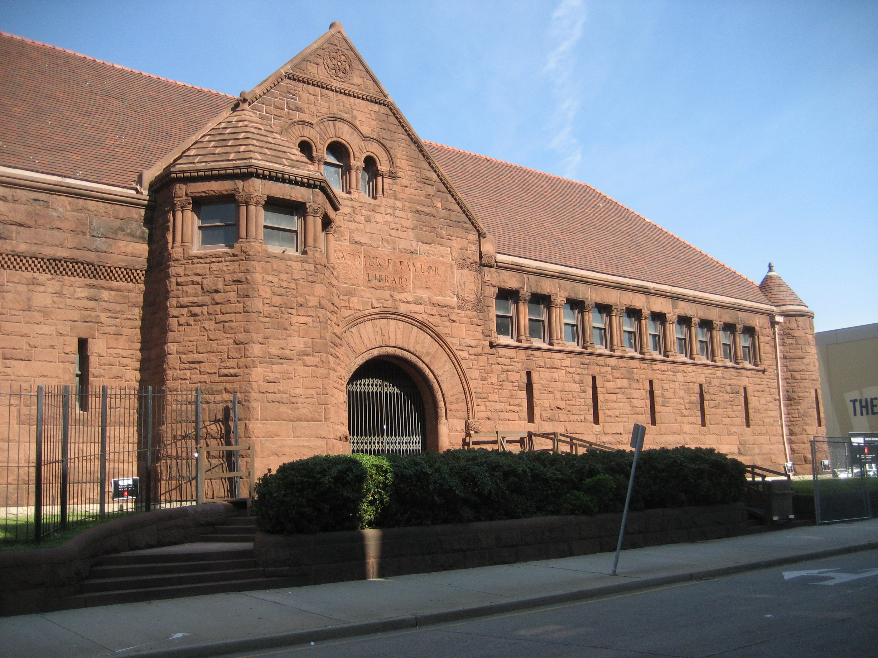 New Orleans: Old Taylor library building, formerly Howard Library, on Howard between Camp Street & Lee Circle.